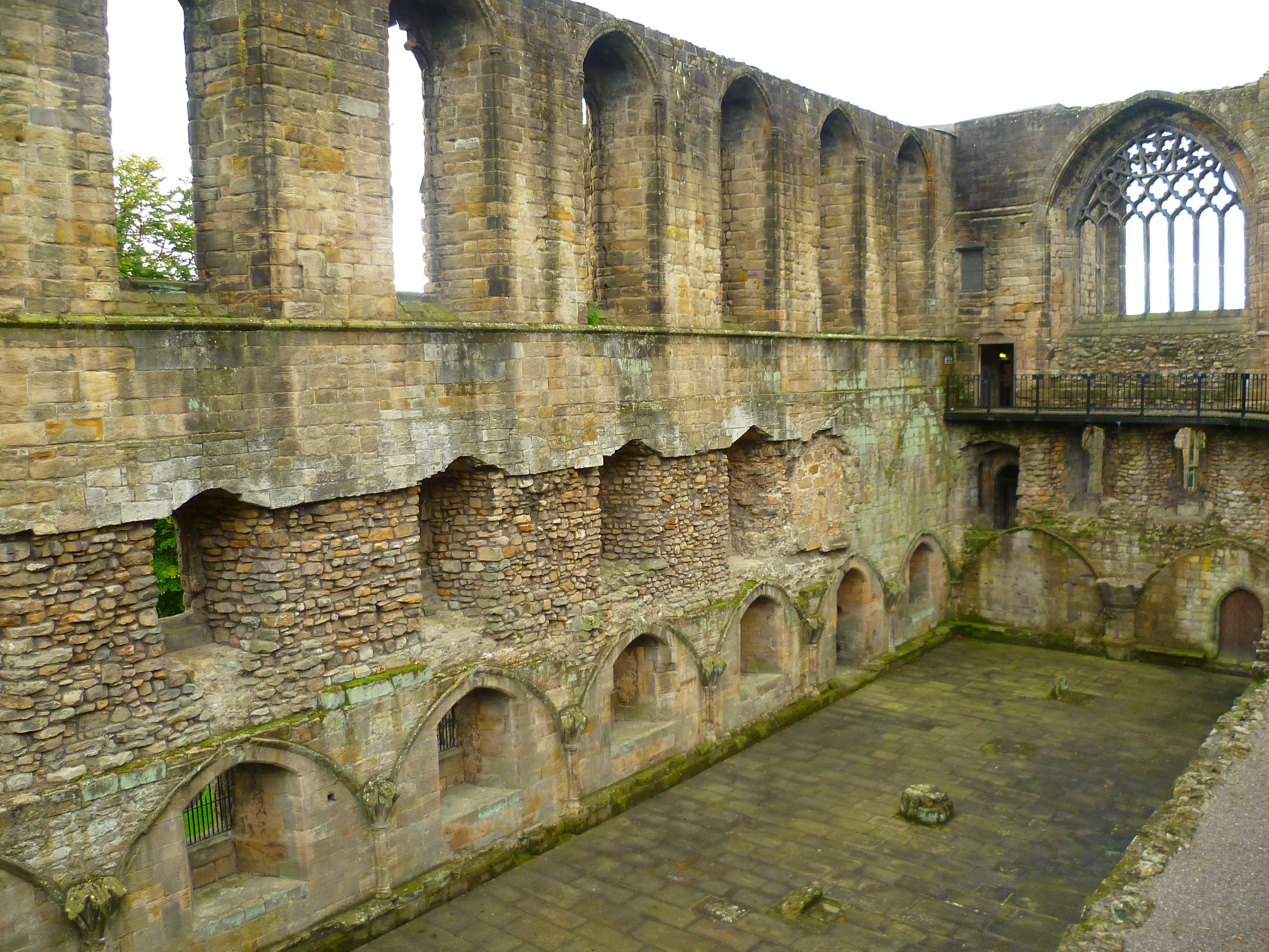 Ruined Refectory of Dunfermline Abbey, Fife